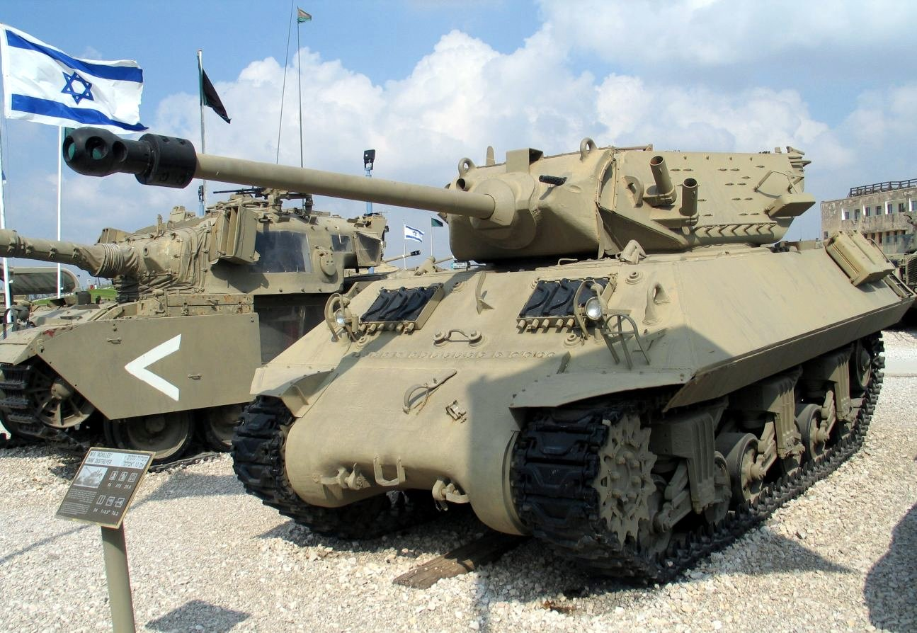 Description: M10 Achilles tank destroyer - a US M10 Wolverine tank destroyer in British service fitted with the 17 pounder anti tank gun instead of the 3-inch US gun. This vehicle is at the Yad la-Shiryon Museum, Israel. 2005. Source: Photo by me, User:Bukvoed.